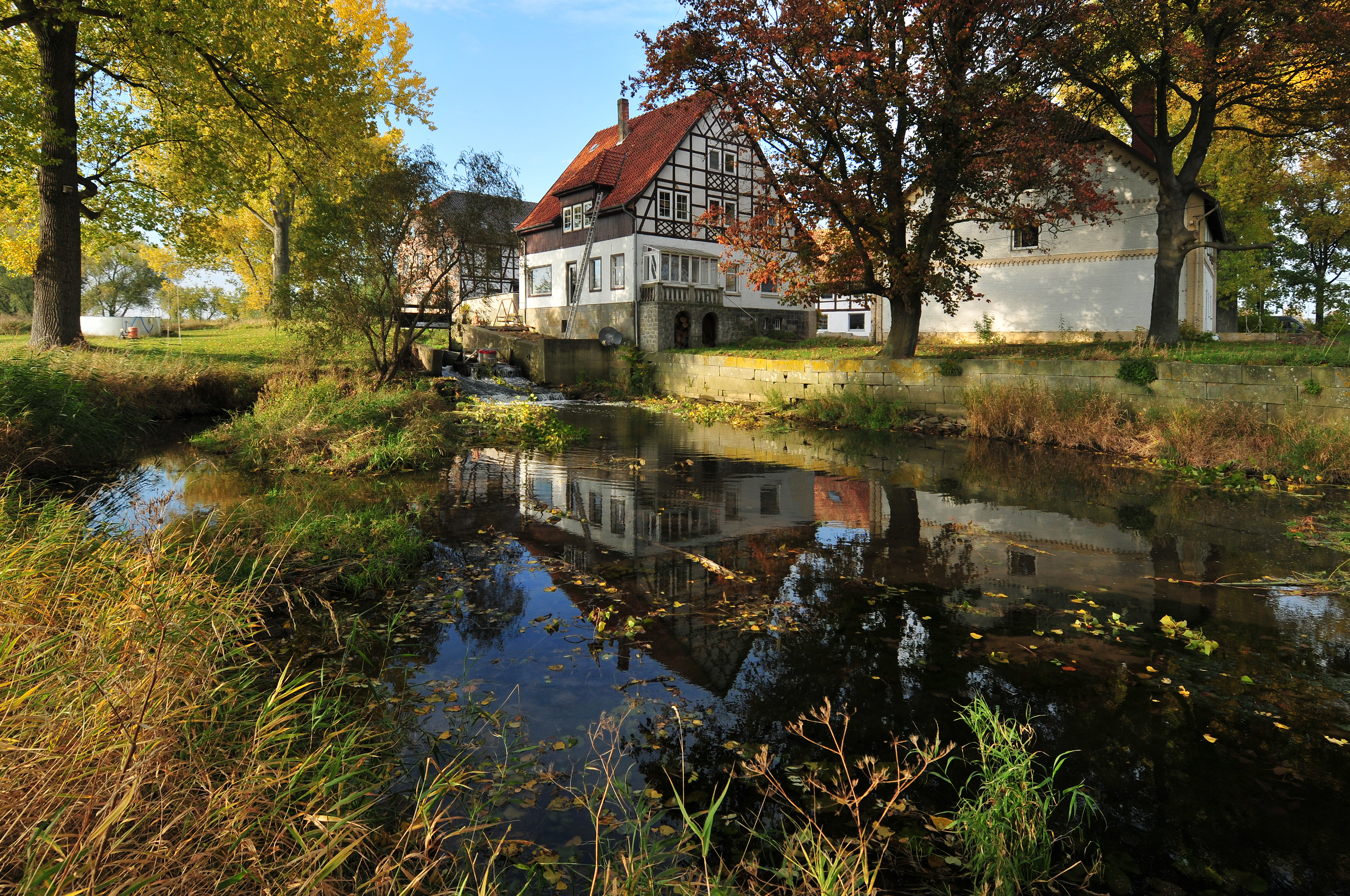 The "Rosenmühle" on the river Haller is a former water mill in Adensen, Nordstemmen, Lower Saxony, Germany.